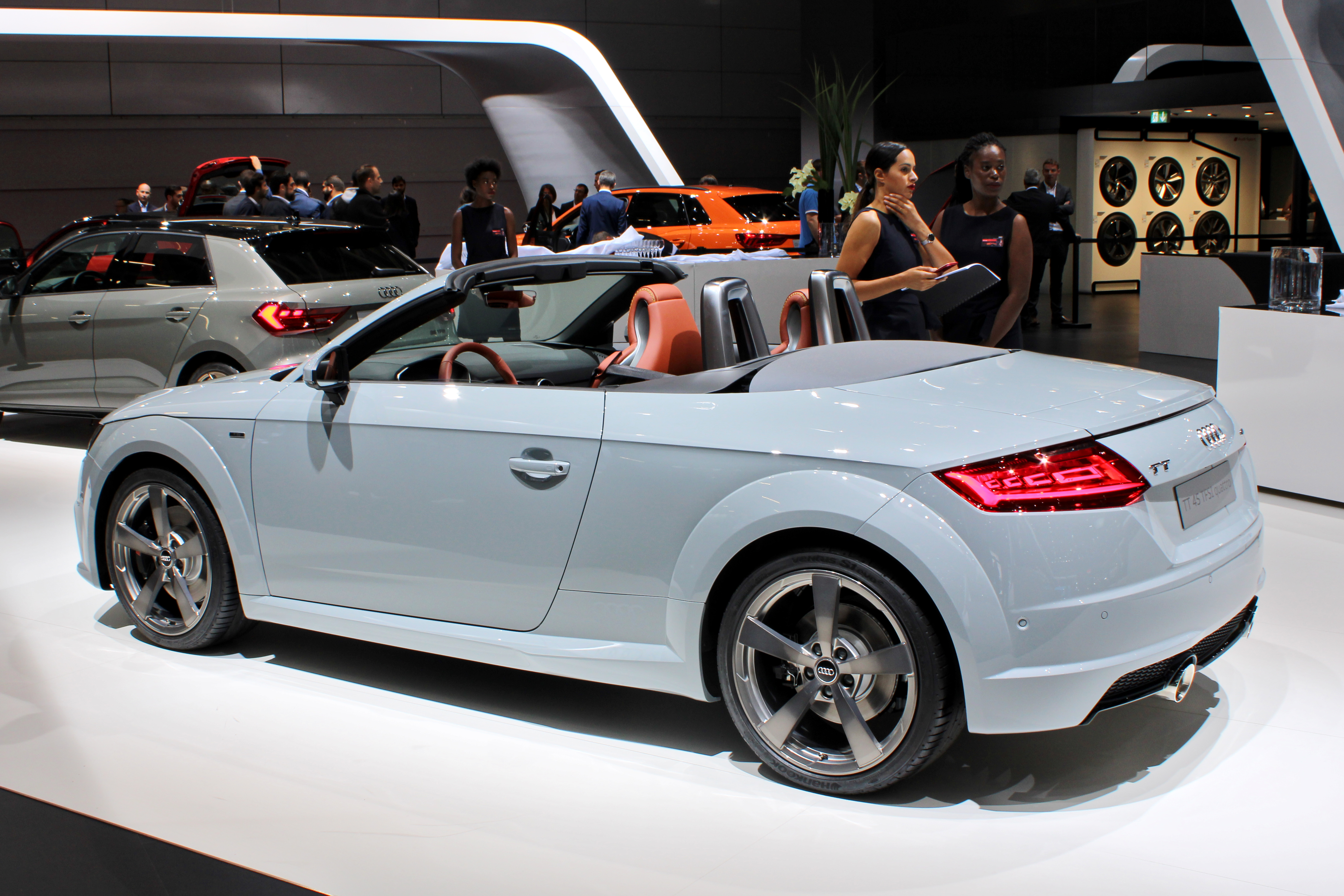 Audi TT Roadster 45 TFSI quattro at Paris Motor Show 2018